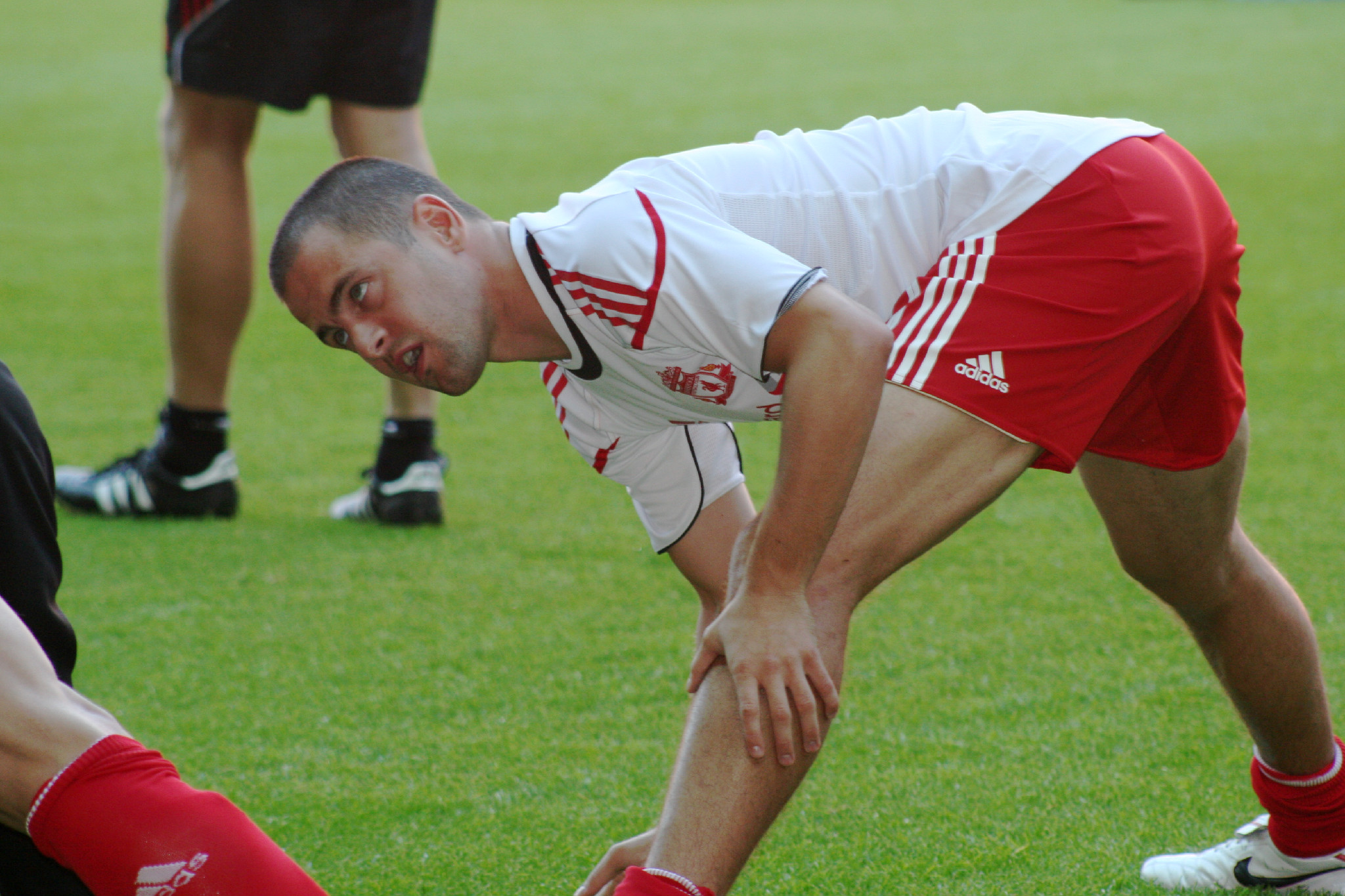 5 mins before his Anfield debut.